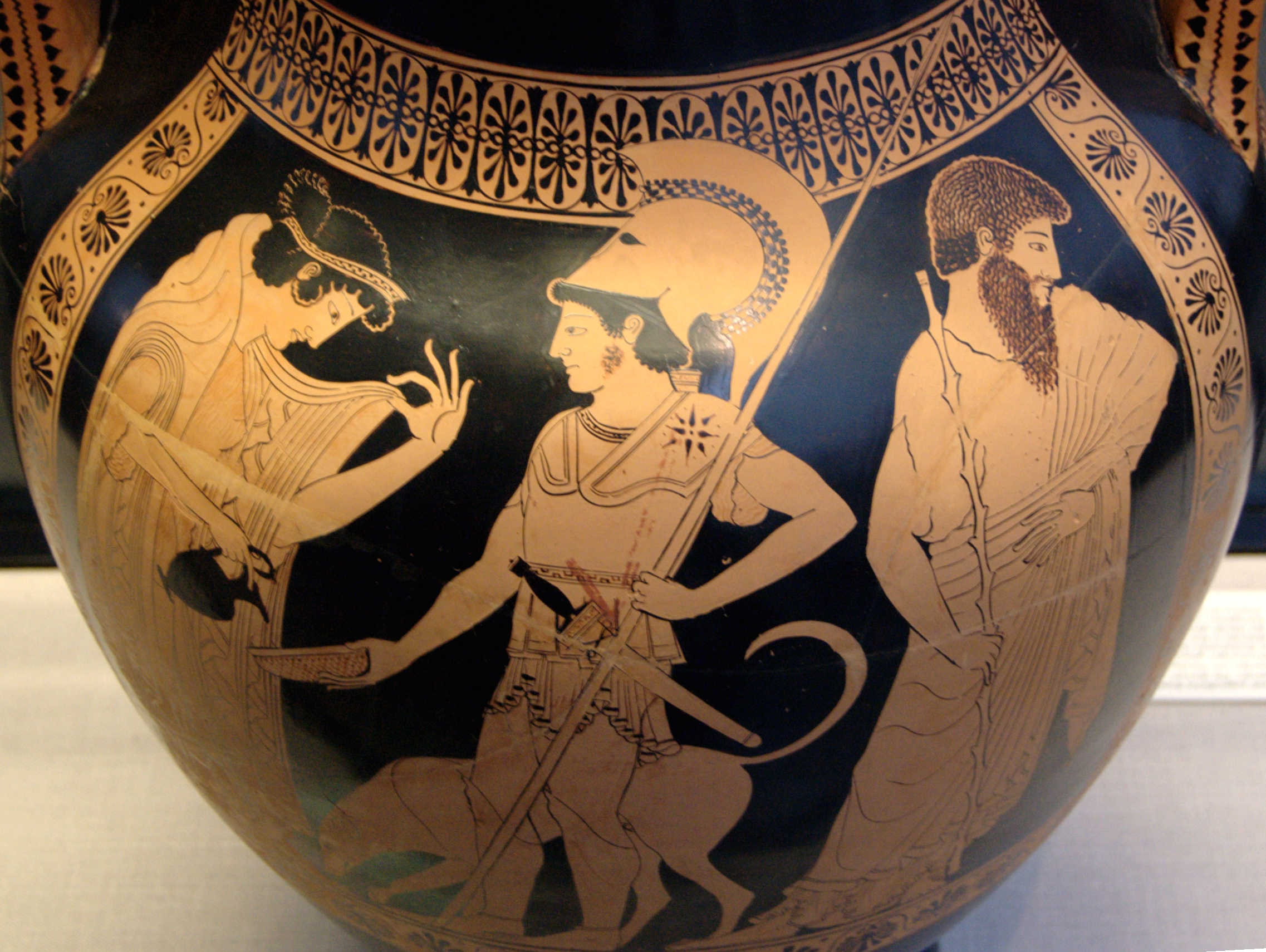 Warrior departure. Side A of an Attic red-figure belly-amphora.